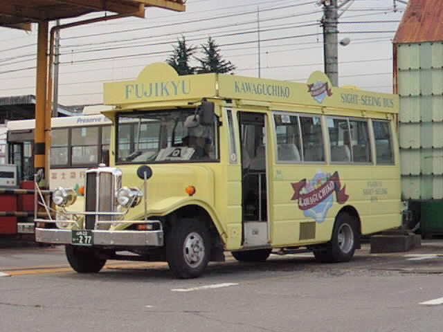 Nissan Civilian U-RGW40 for Fujikyu Yamanashi Bus #9543